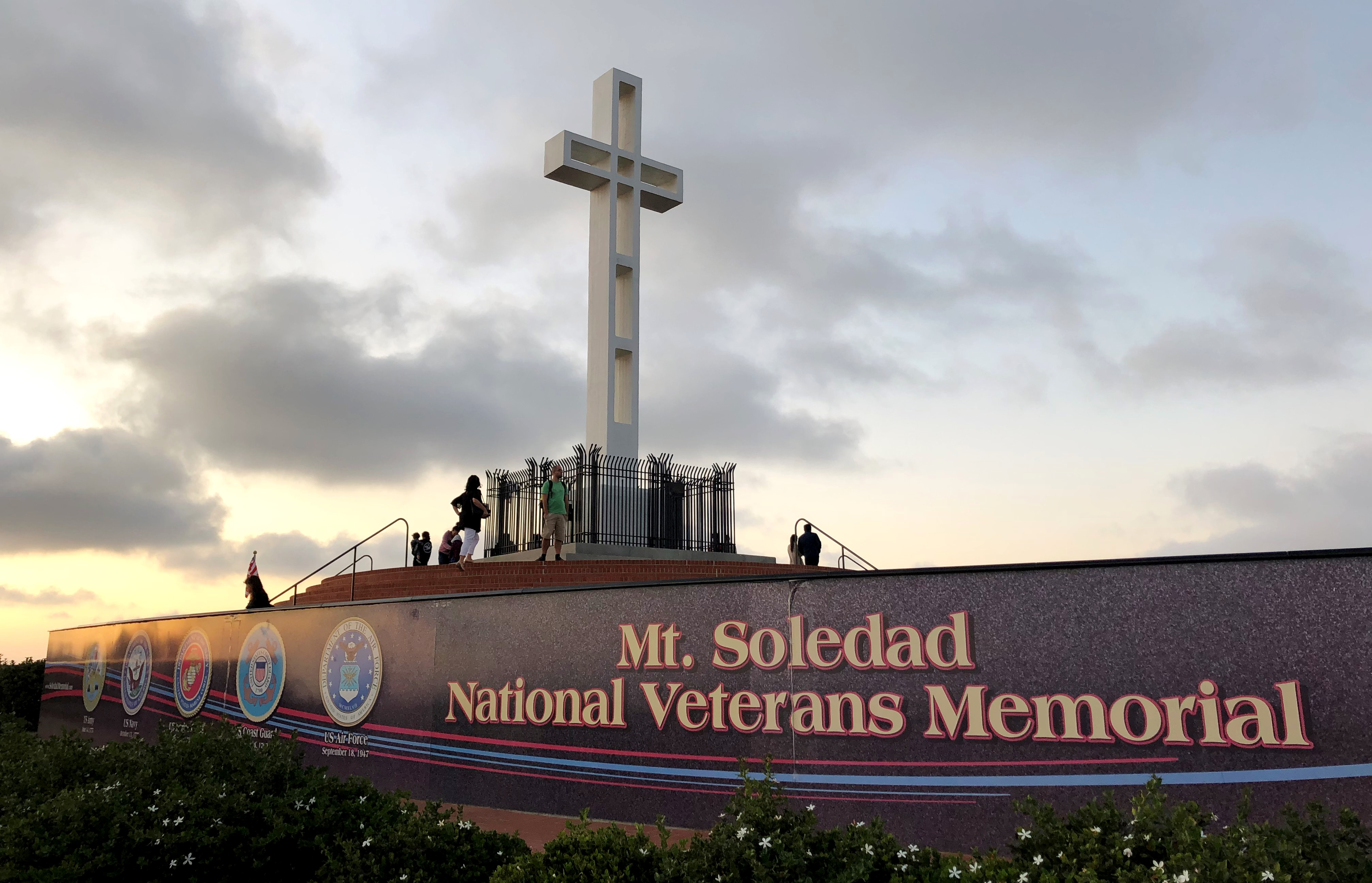 Mt. Soledad National Veterans Memorial is a prominent landmark located on top of Mount Soledad in the La Jolla neighborhood of San Diego, California. A cross was first erected on the site in 1913; the present one - the third on the site -- dates from 1954 and was designed by Donald Campbell; it is built of prestressed concrete and is 29 feet (8.8 m) tall (43 feet tall including the base) with a 12-foot (3.7 m) arm spread. The cross is the centerpiece of the memorial, which is privately owned but recognized by the Department of Defense.